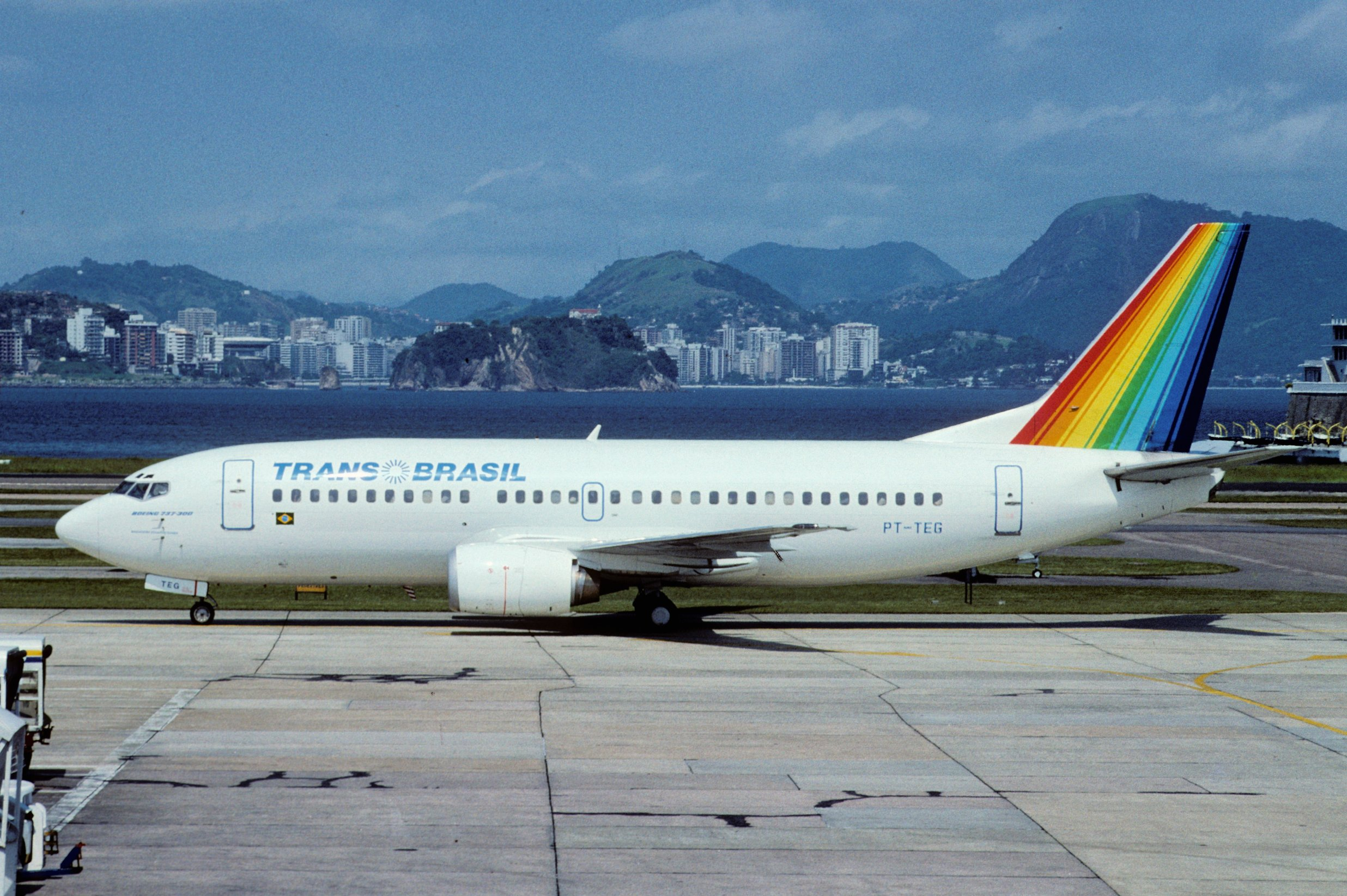 12/01/1988 Transbrasil PT-TEG lsd ILFC - ret 02/08/02 as N209PK 29/08/2002 Bluebird Cargo TF-BBC 19/05/2007 Airwork ZK-TLB Converted to freighter - Stored 02/2009 21/05/2010 Axiom Air 5N-BMA